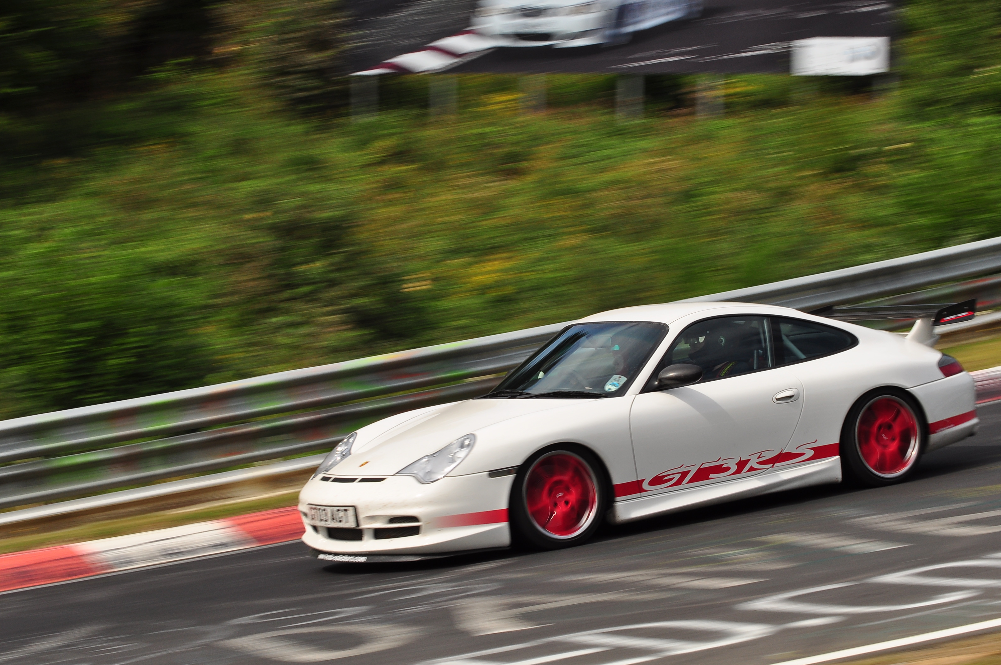 Porsche 996 GT3 RS at the Nürburgring Nordschleife, Brünnchen.